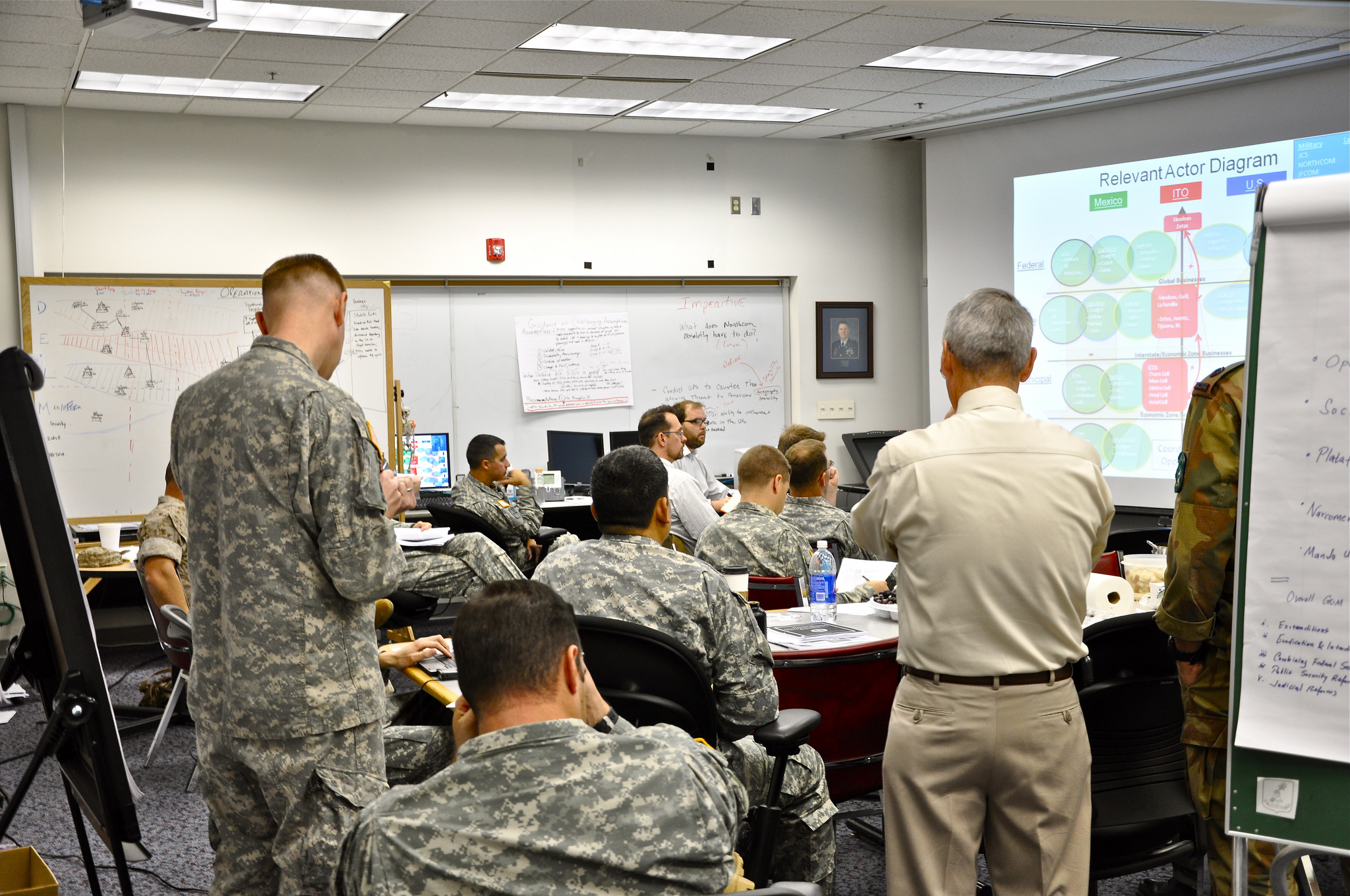 Photo taken with Nikon D90 on 2 November 2010